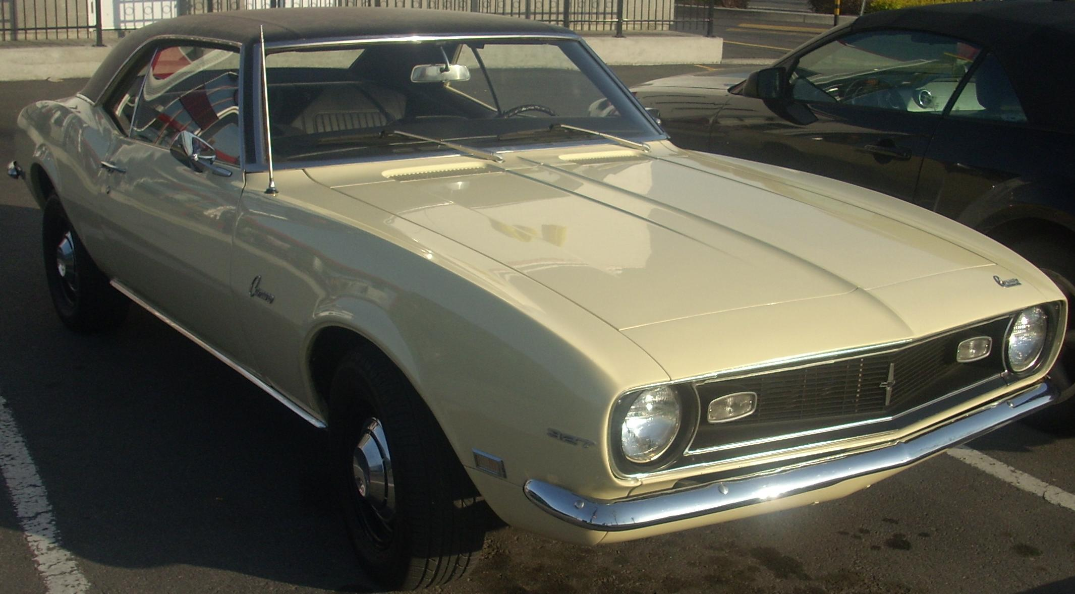 1968 Chevrolet Camaro photographed in Montreal, Quebec, Canada.